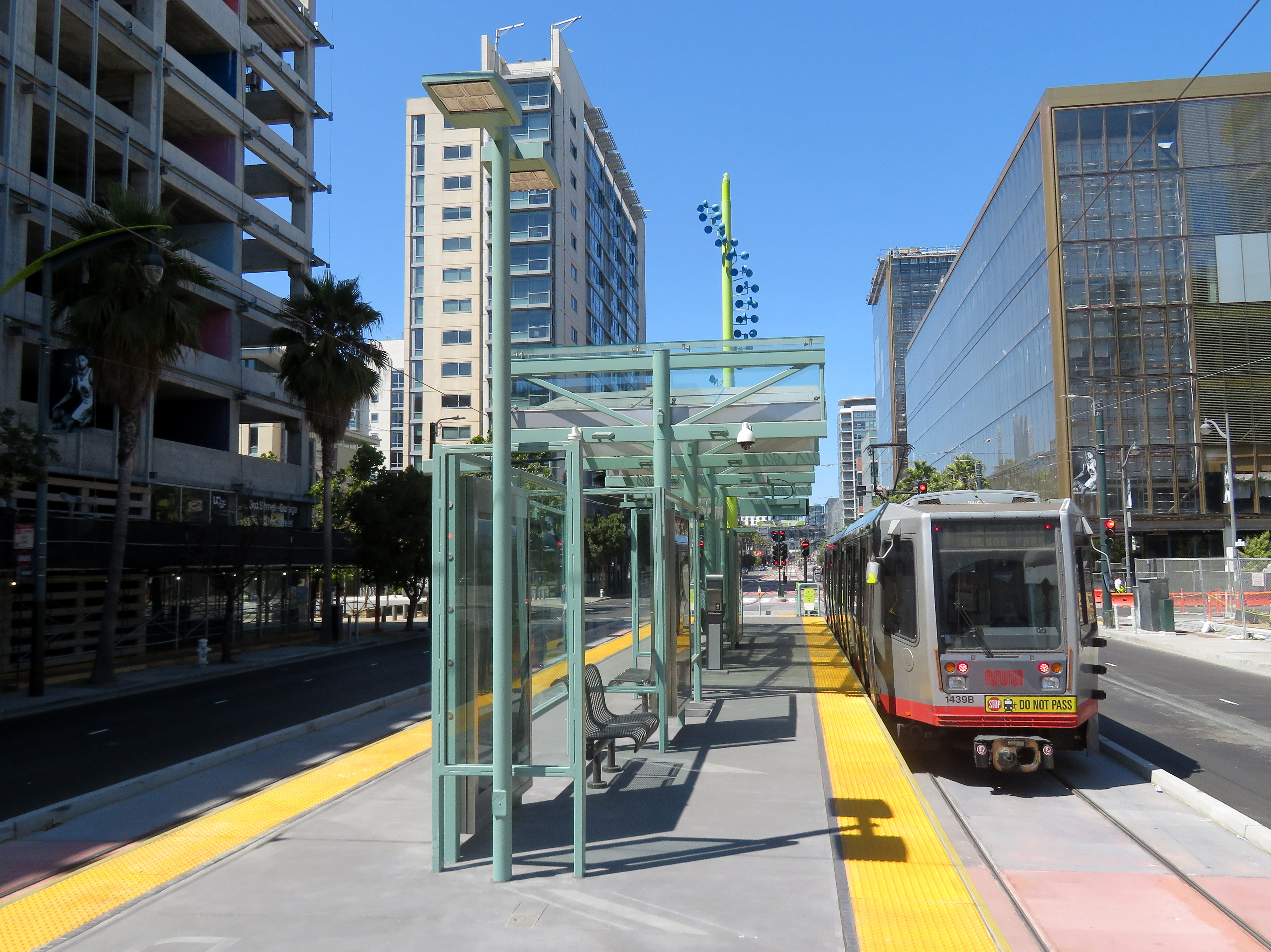 A northbound train at the newly-opened UCSF/Chase Center station in August 2019